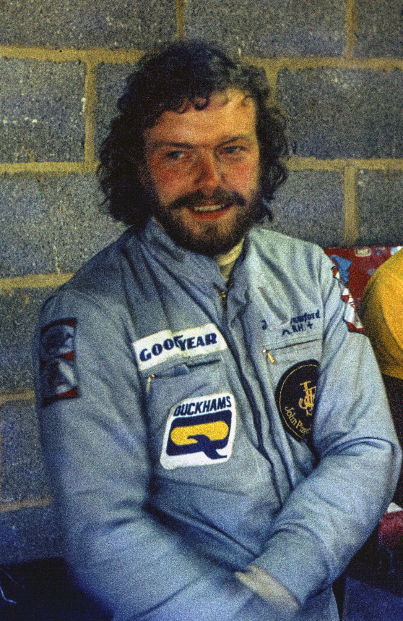 Jim Crawford debuts with JPS Lotus at the British Grand Prix 1975 at Silverstone